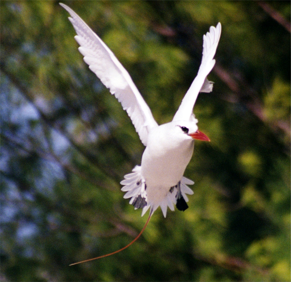 Red-tailed Tropicbird at Midway Atoll.